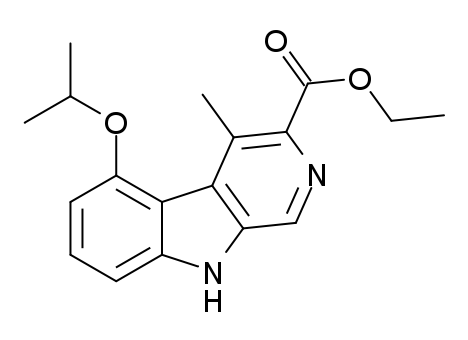 i drew this anyone can use it